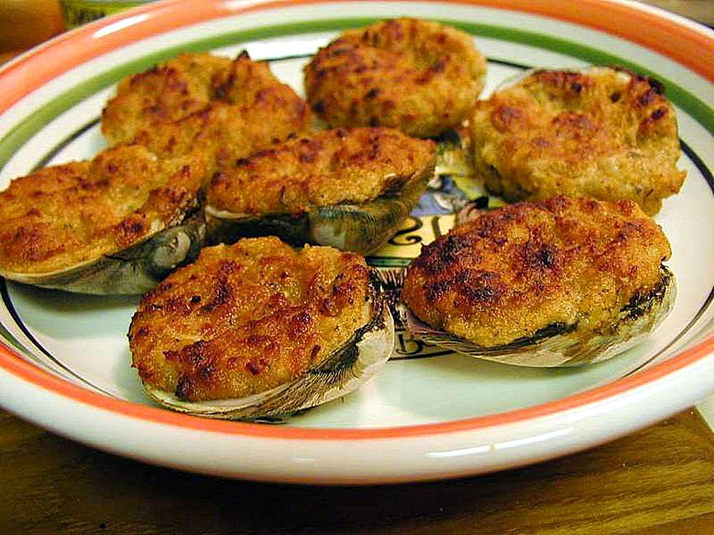 Image title: Stuffed clams food dinner cooking Image from Public domain images website